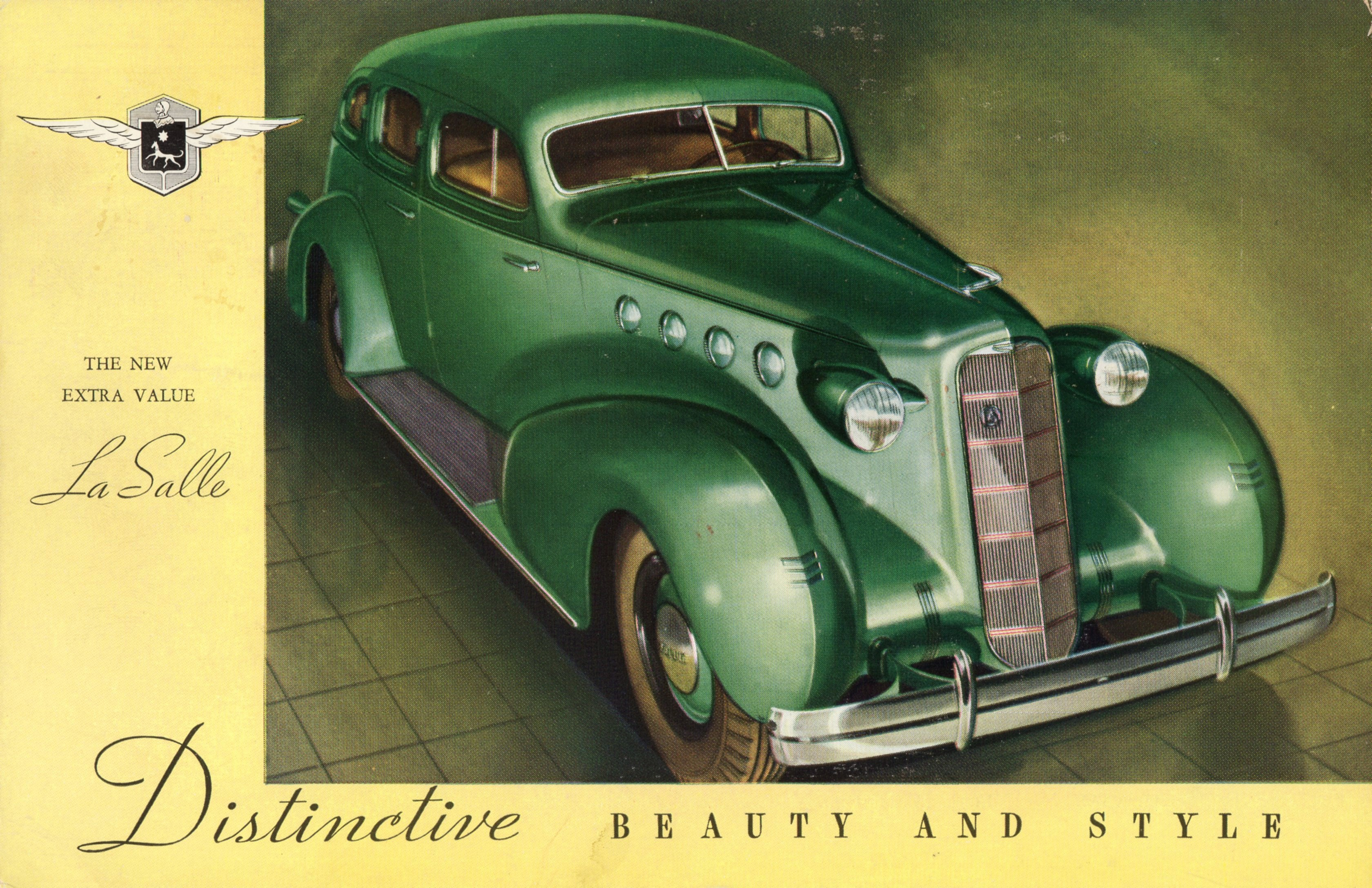 LaSalle 1935 Series 50 Four-Door Touring Sedan